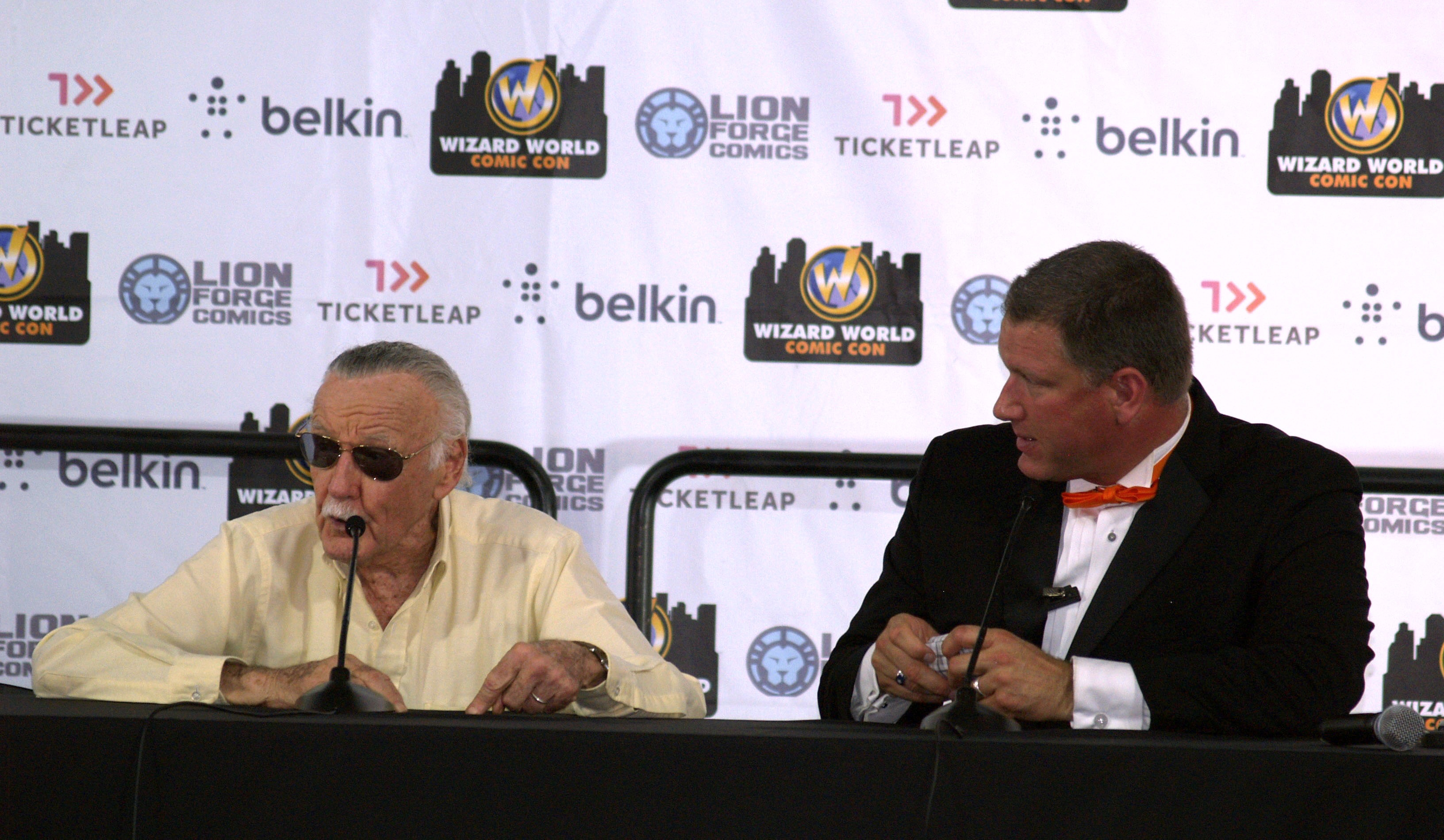 Comics writer/editor and media personality Stan Lee during a June 29, 2013 Q&A session at the Wizard World New York Experience Comic Con in Manhattan. The moderator on the right is Jarrett Crippen, an Austin, Texas police detective who won the second season of the reality television series that Lee hosts, Who Wants to Be a Superhero?, with his character, the Defuser. This photo was created by Luigi Novi. It is not in the public domain, and use of this file outside of the licensing terms is a copyright violation.